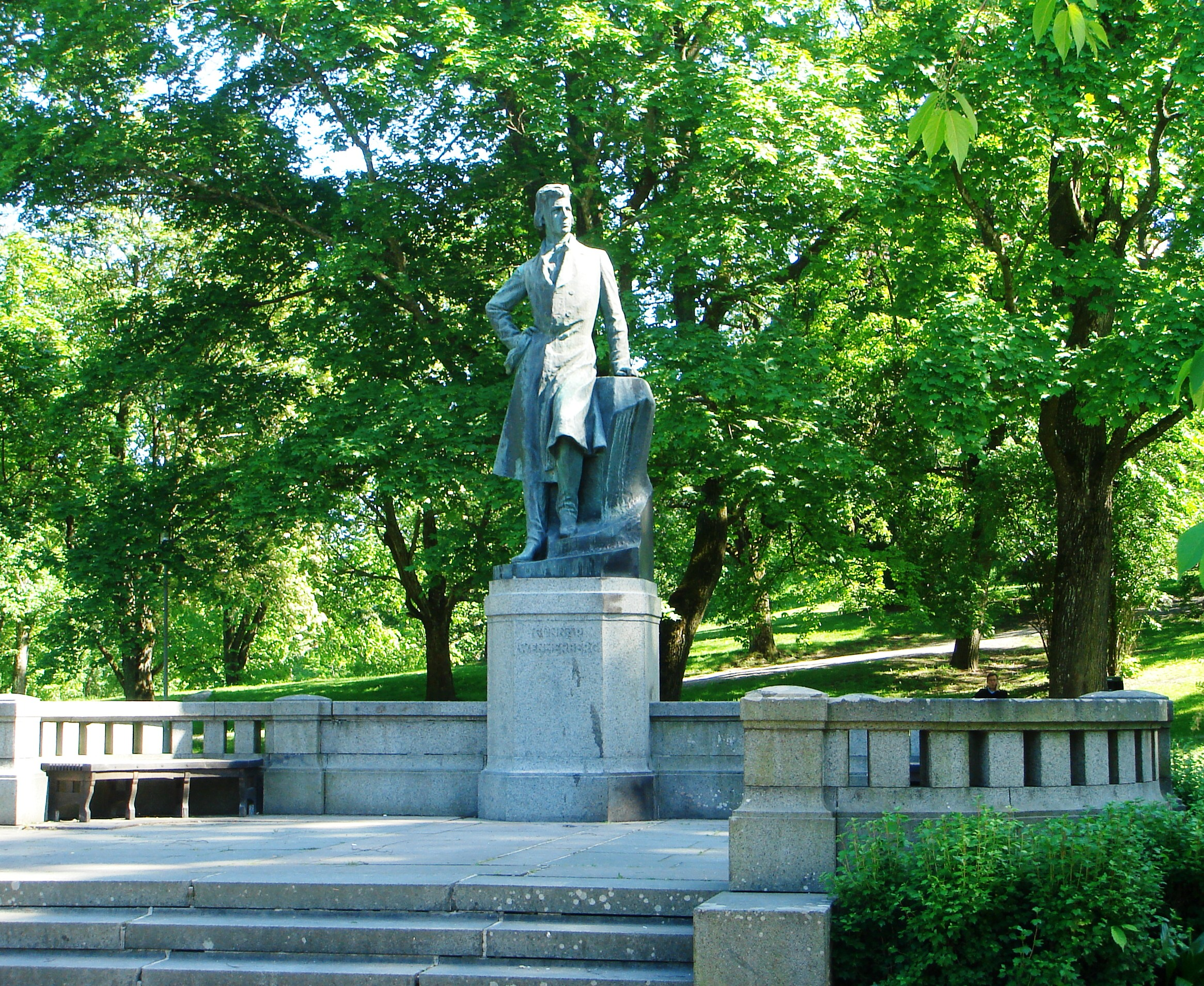 The statue of Gunnar Wennerberg in Uppsala, Sweden. Created 1912 by the Swedish artist Theodor Lundberg (1852-1926)